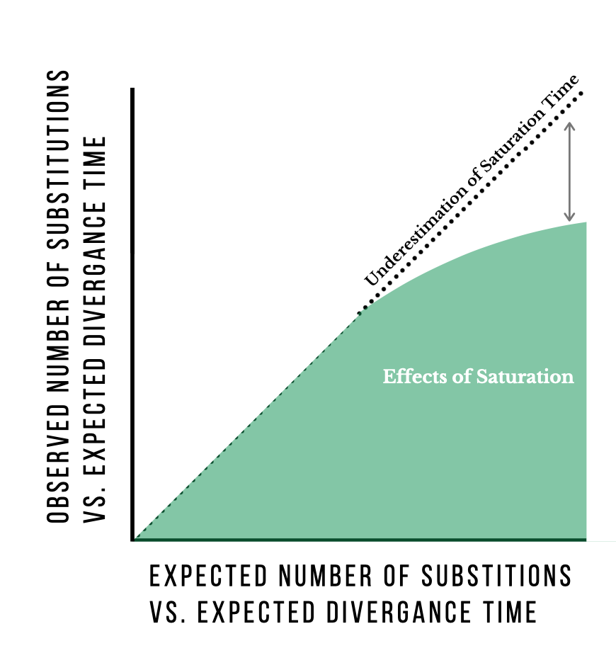 The graph above illustrate how the effects of saturation can affect expected divergence times leading to inaccurate estimates.